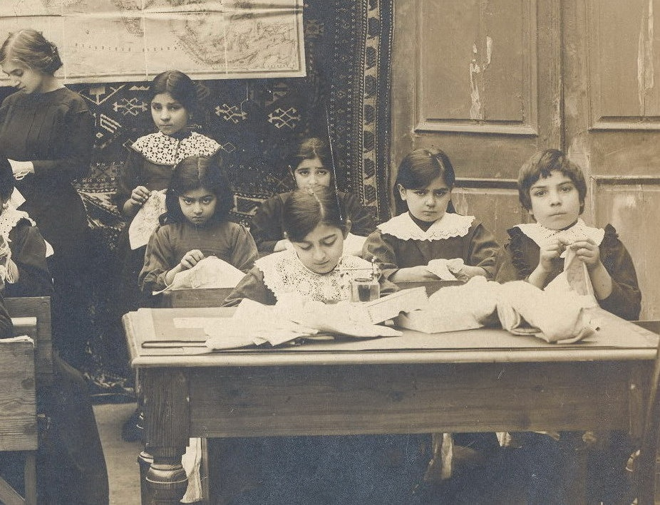 Schoolchildren in Baku muslim girls school